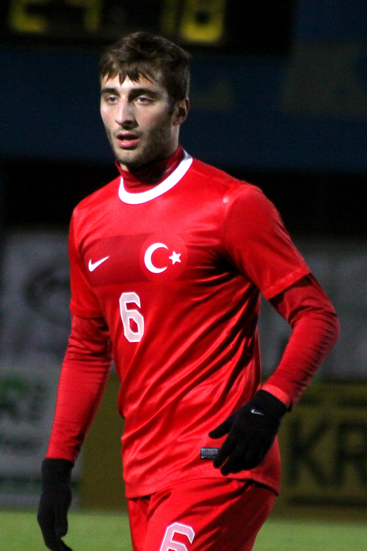 Friendly-match Austria U-21 vs. Turkey U-21 (2:0) on 2013-11-14 in Wiener Neudorf. – The photo shows Alpaslan Öztürk (Standard Liège, Turkey).